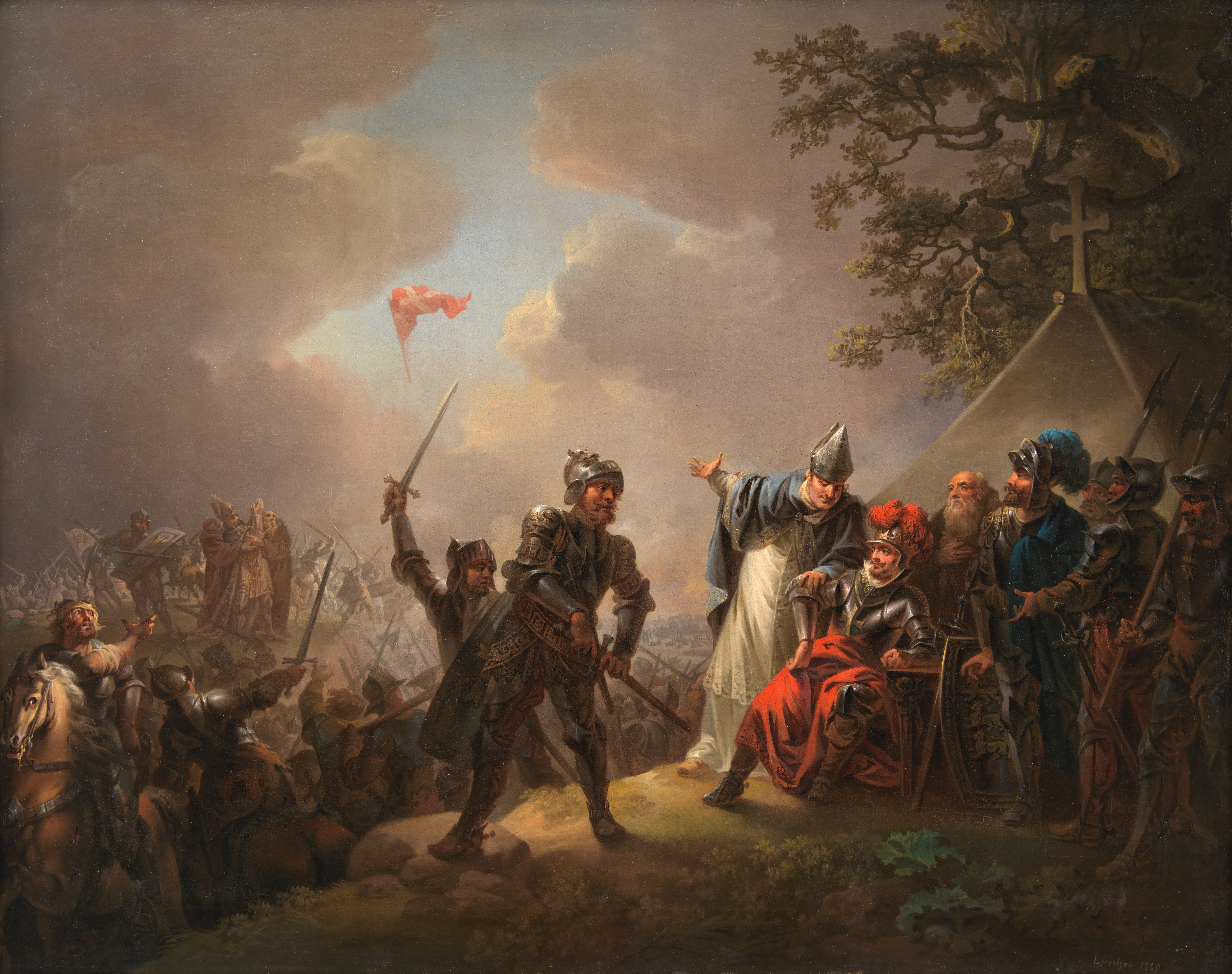 ...at left in the background archbishop Anders Sunesen with raised hands, and in the foreground Roskilde-bishop Peder Jacobsen pointing at Dannebrog while informing king Valdemar II of Denmark